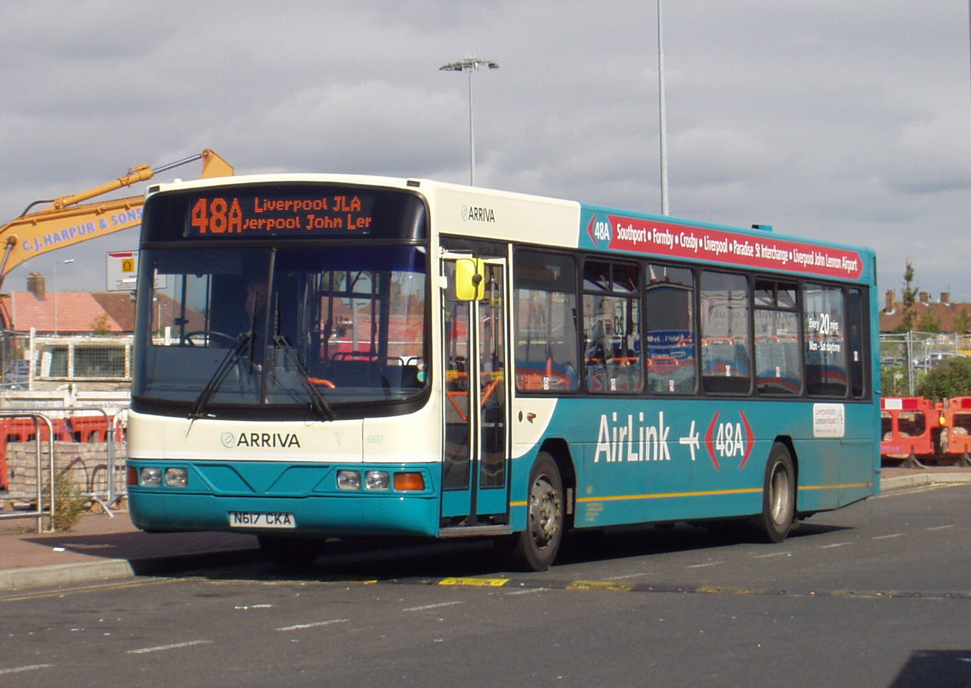 Volvo B10B with Wright Endurance bodywork in service with Arriva North West and Wales at Liverpool Airport.